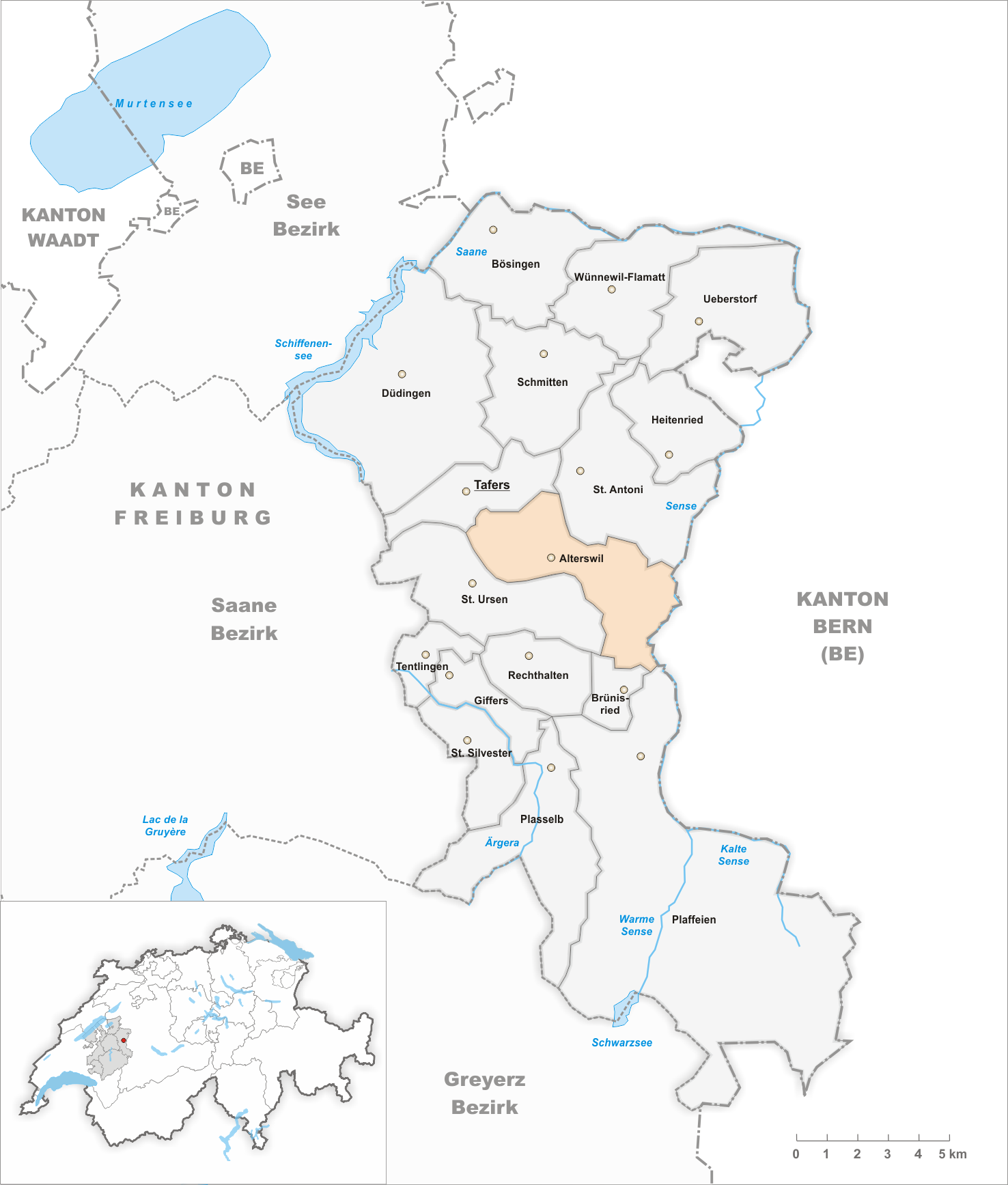 Municipality Alterswil